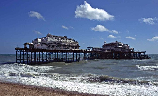 The West Pier, Brighton. The West Pier when restoration seemed a possibility before it was destroyed by fire and storms.